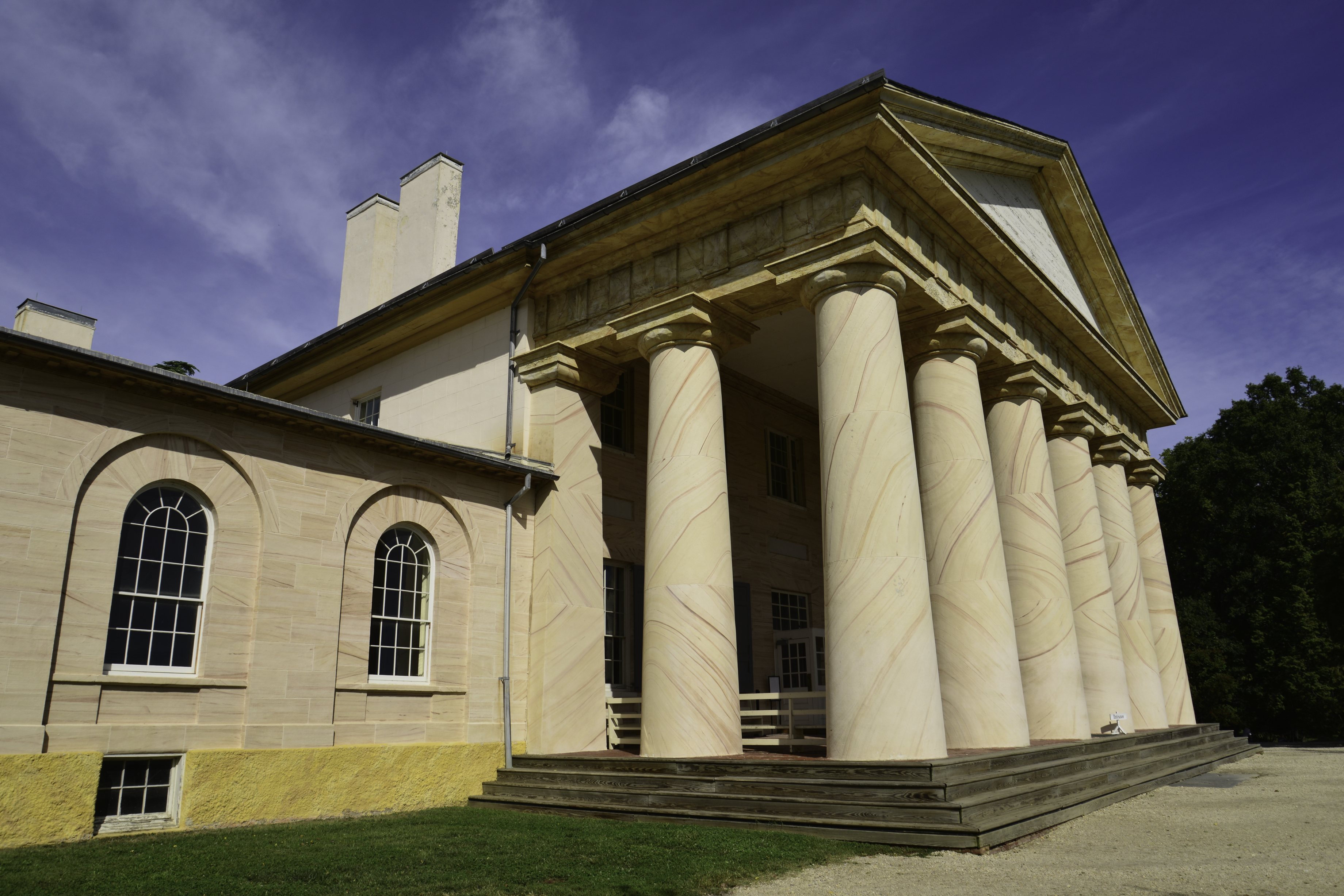 Arlington House, The Robert E. Lee Memorial